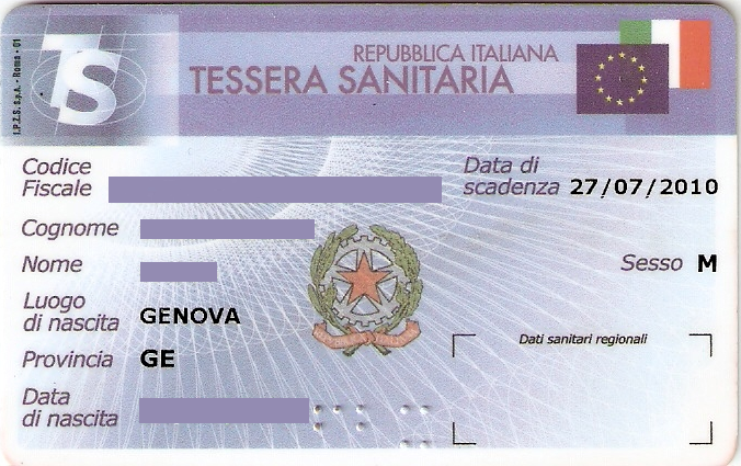 Italian health insurance card